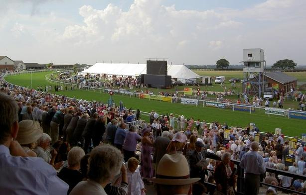 Beverley Racecourse, Beverley, East Riding of Yorkshire, England